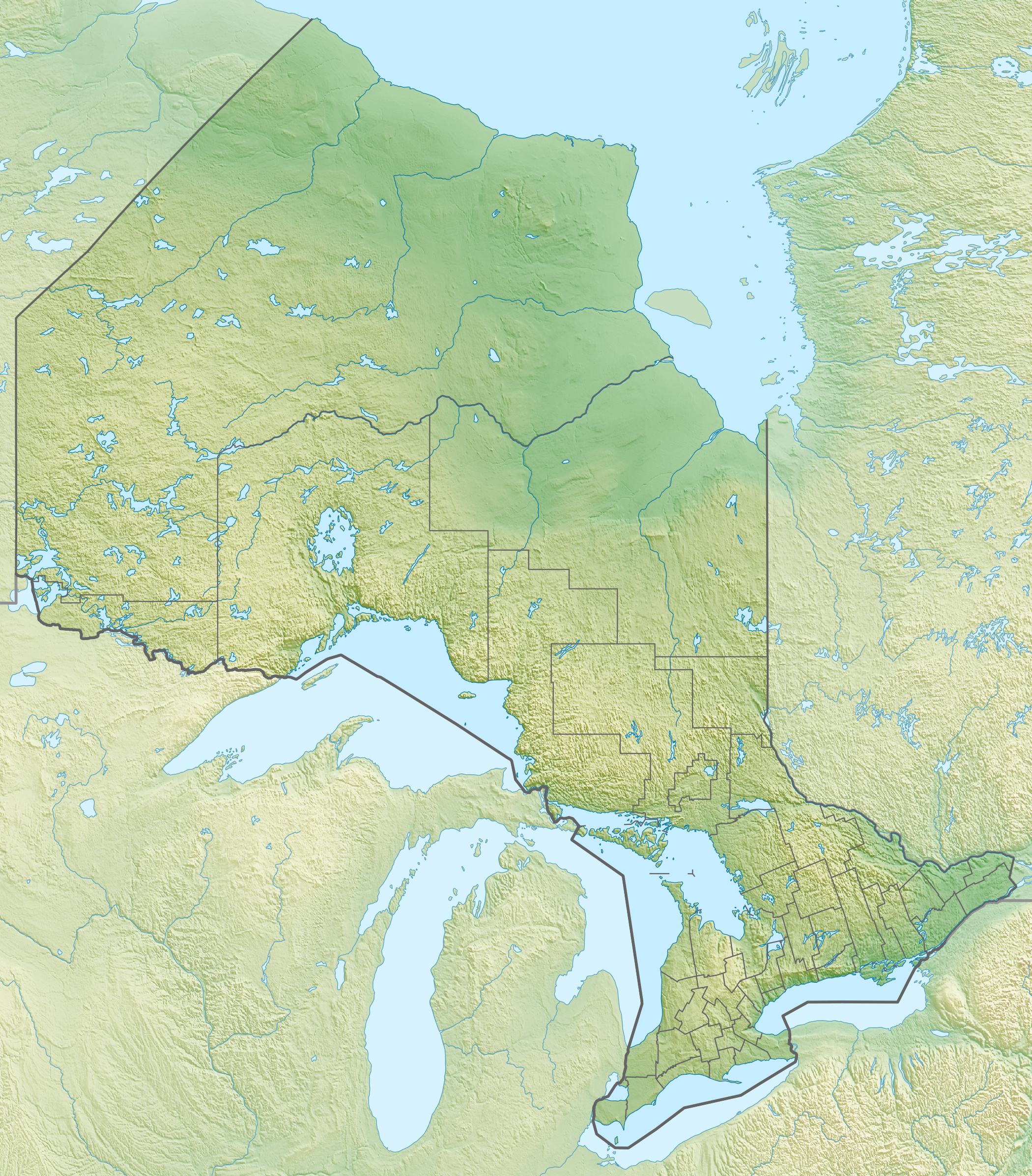 Physical location map of Ontario, Canada Equirectangular projection, N/S stretching 155 %. Geographic limits of the map: N: 57.1° N S: 41.3° N W: 95.5° W E: 74.0° W